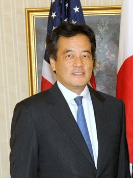 Katsuya Okada, Minister for Foreign Affairs, met Hillary Rodham Clinton, Secretary of State, at the Waldorf-Astoria Hotel in New York City, New York State on September 21, 2009.